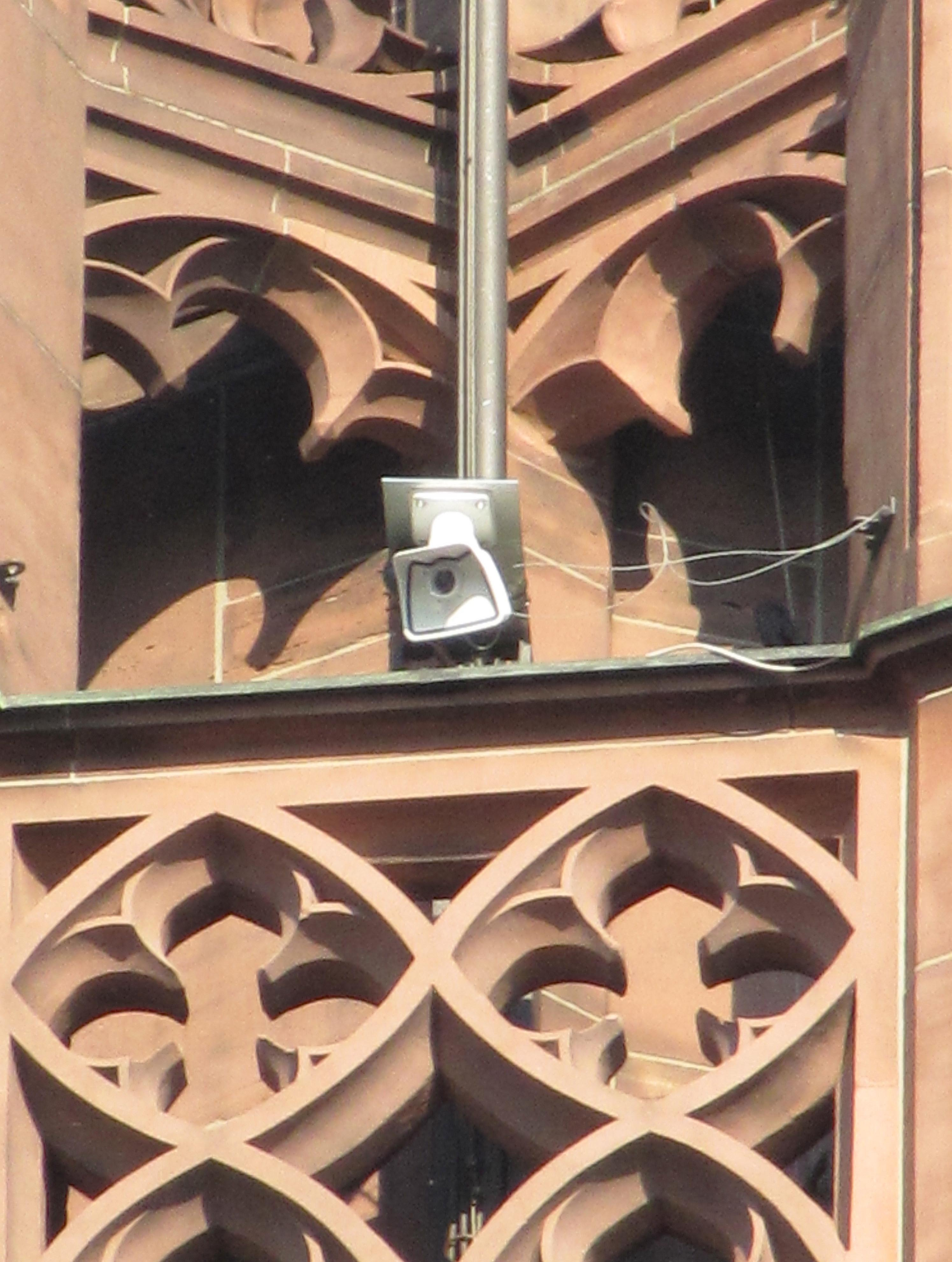 Webcam at "Dom" tower, closed-circuit television for building site "Technisches Rathaus" in Frankfurt am Main, Germany.